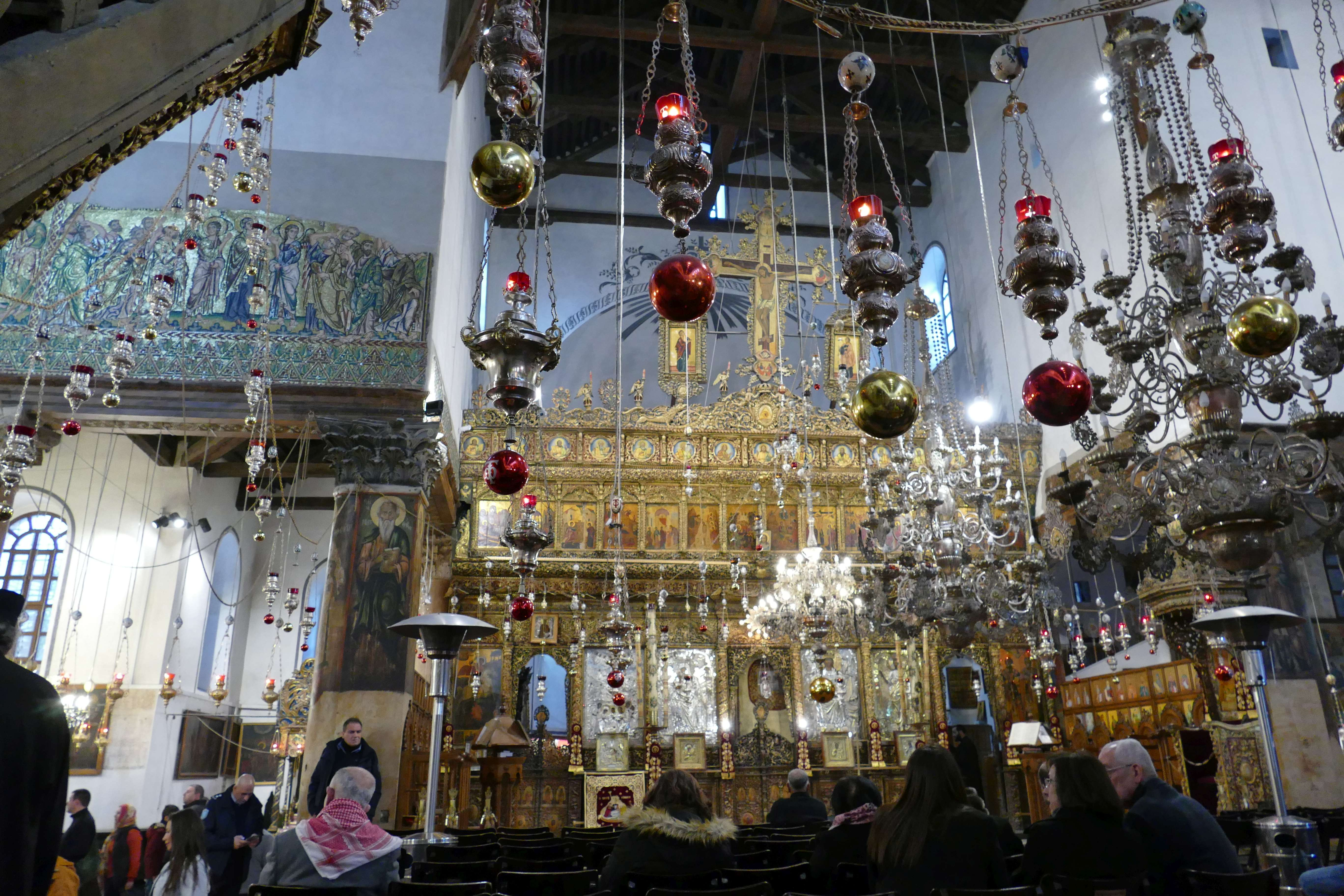 Church of the Nativity, Bethlehem, West Bank.